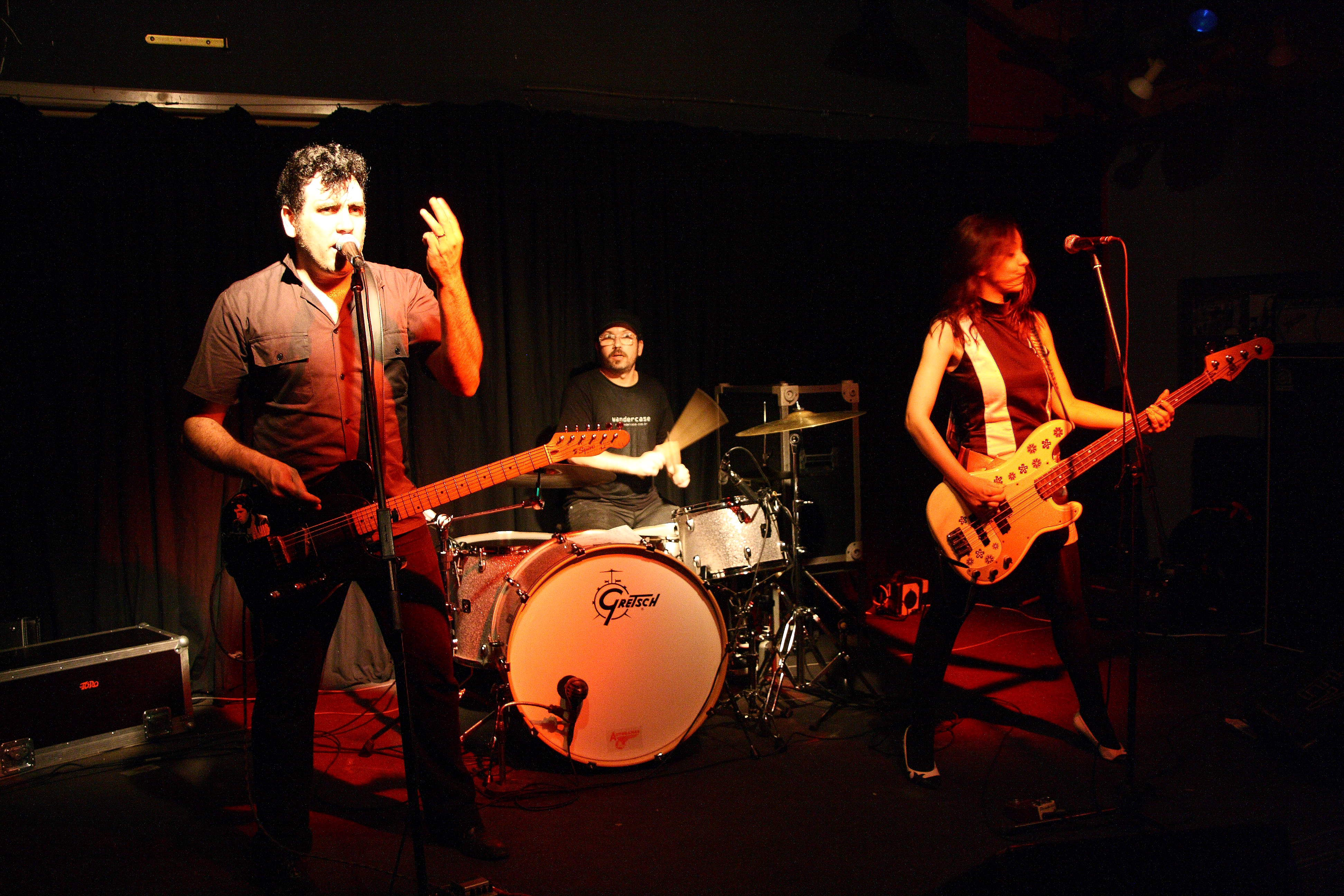 Autoramas at Club W71, Weikersheim